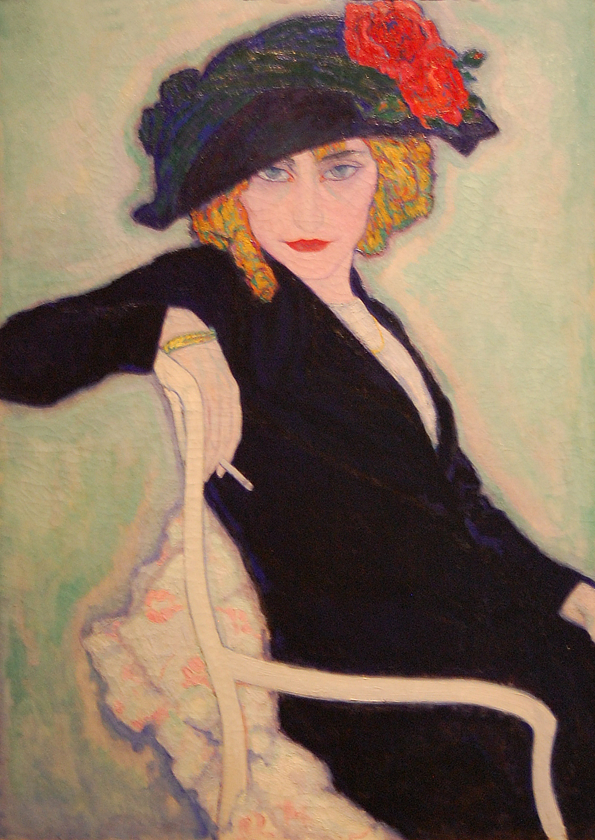 Leo Gestel, lady with sigarette, 1911